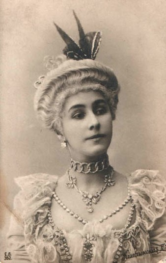 Photographic postcard of Mathilde Felixovna Kschessinskaya (1872-1971), Soloist to His Imperial Majesty and Prima ballerina of the St. Petersburg Imperial Theatres. She is costumed as Marie Camargo in the choreographer Marius Petipa (1811-1910) and the composer Ludwig Minkus's (1826-1917) 1872 ballet La Camargo.